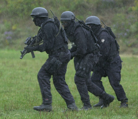 A Picture of FBI SWAT officers.